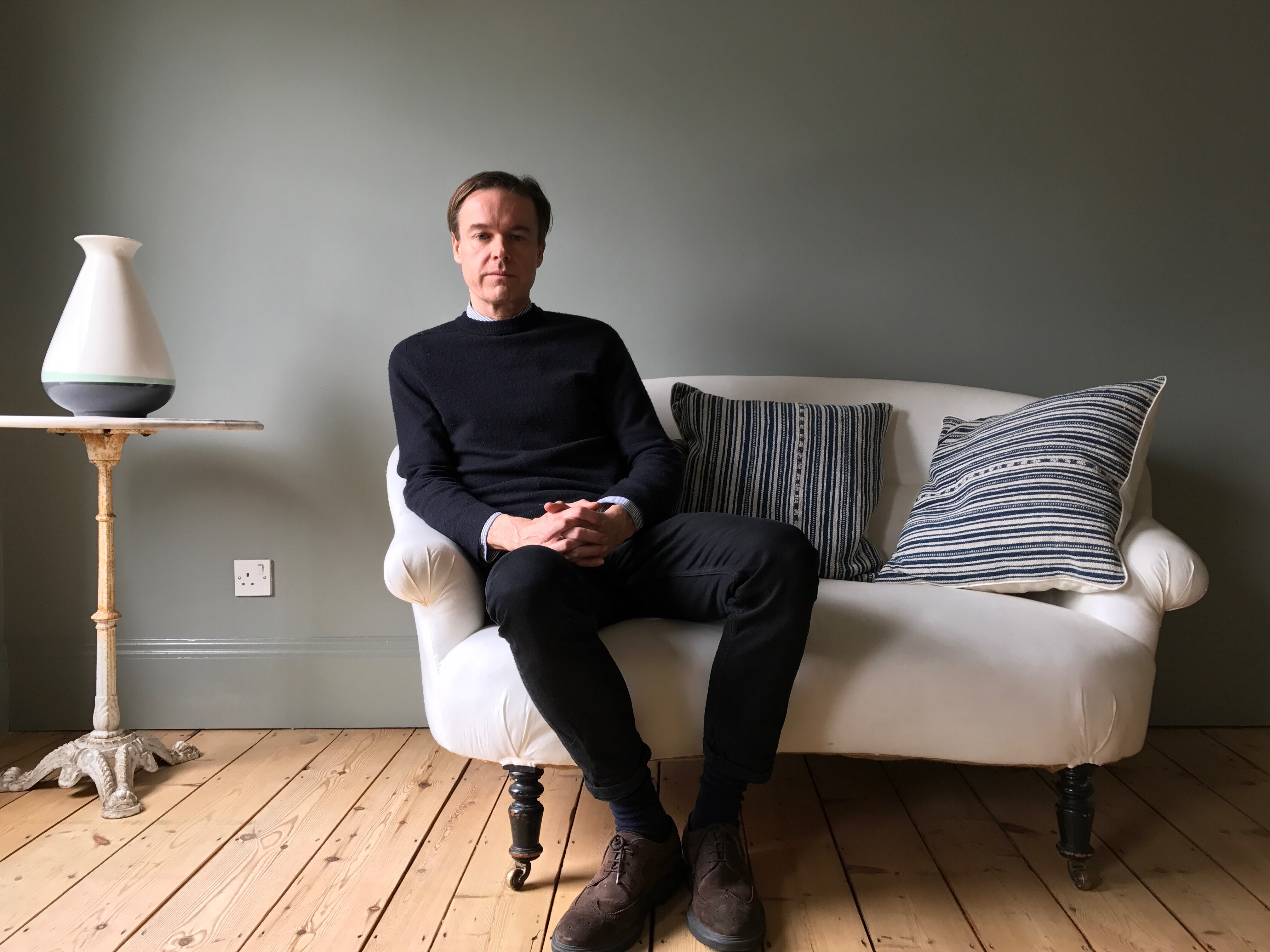 Piers Wenger - Controller, BBC Drama